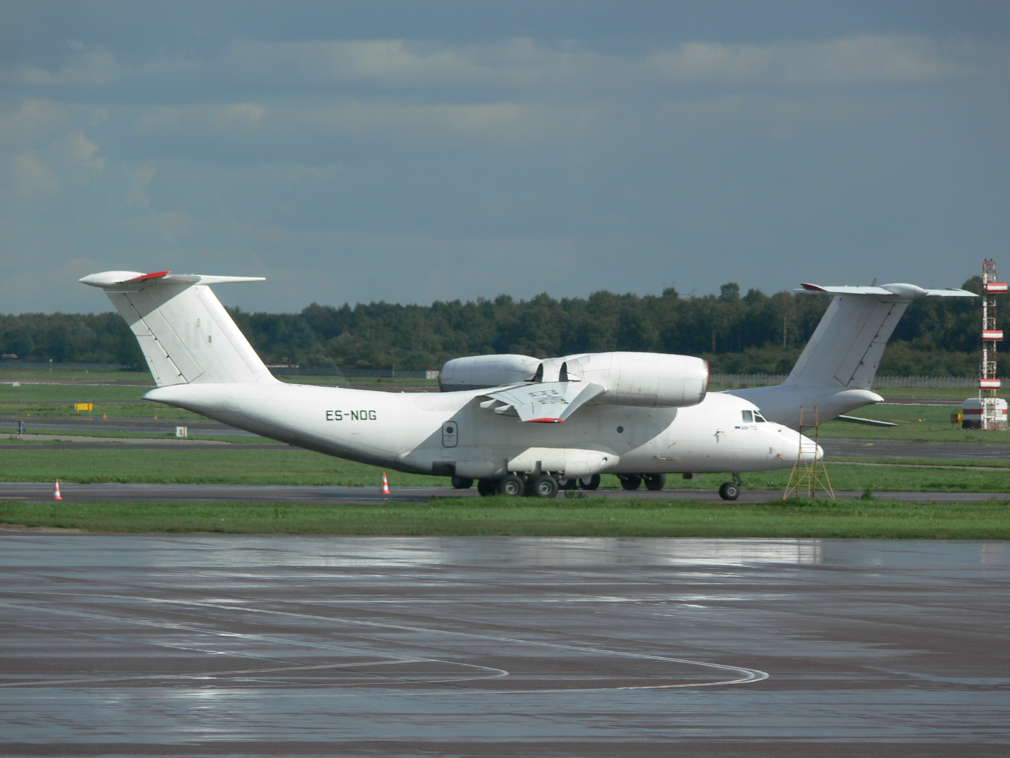 Antonov An-72 at Tallinn AirportAirplane with high shoulders - P1040335